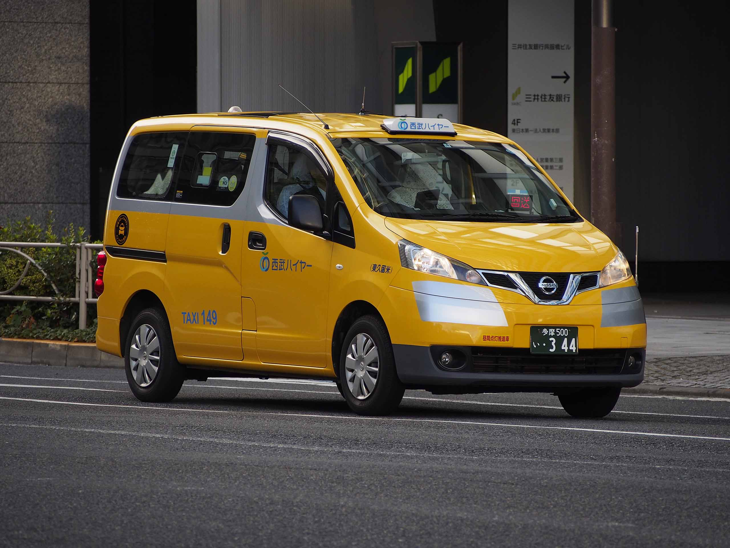 Fleet of Seibu Hire, "Happiness Yellow Taxi" colored rolling stocks of Seibu Railways. Model: Nissan NV200 License plate: TKT500 I0344 Place: Gofukubashi Crossing, Chuo Ward, Tokyo Japan